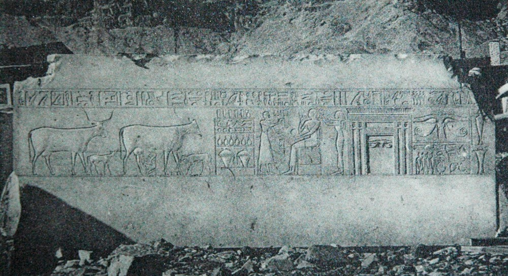 Sarcophagus of Kauit from the Mortuary Temple of Mentuhotep II. at Deir el-Bahari